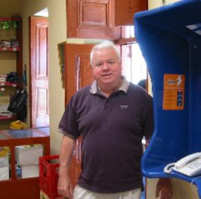 Bruce Lusignan working on satellite dish installation project for improving telecom connectivity in rural Peru.